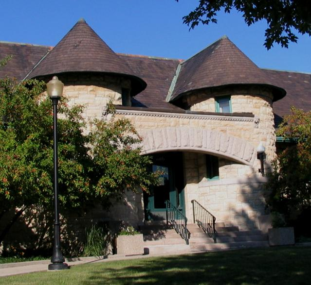 Image of the main entrance to the Morgan Park Library (today the George C. Walker Public Library) by Charles Sumner Frost, 1890